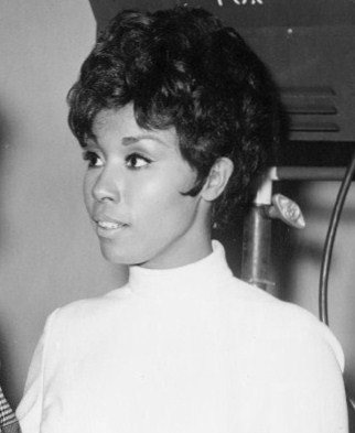 Singer-actress Diahann Carroll - publicity still (original image cropped : see source)